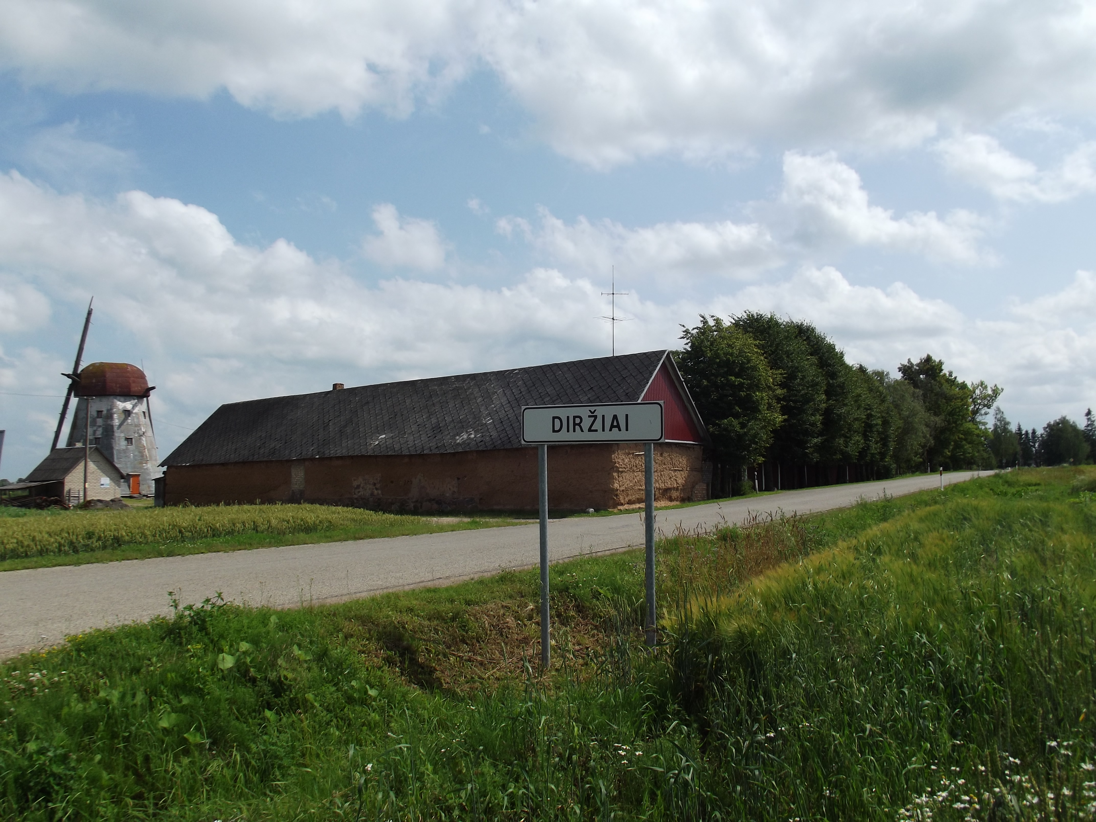 Diržiai, Pakruojis district, Lithuania